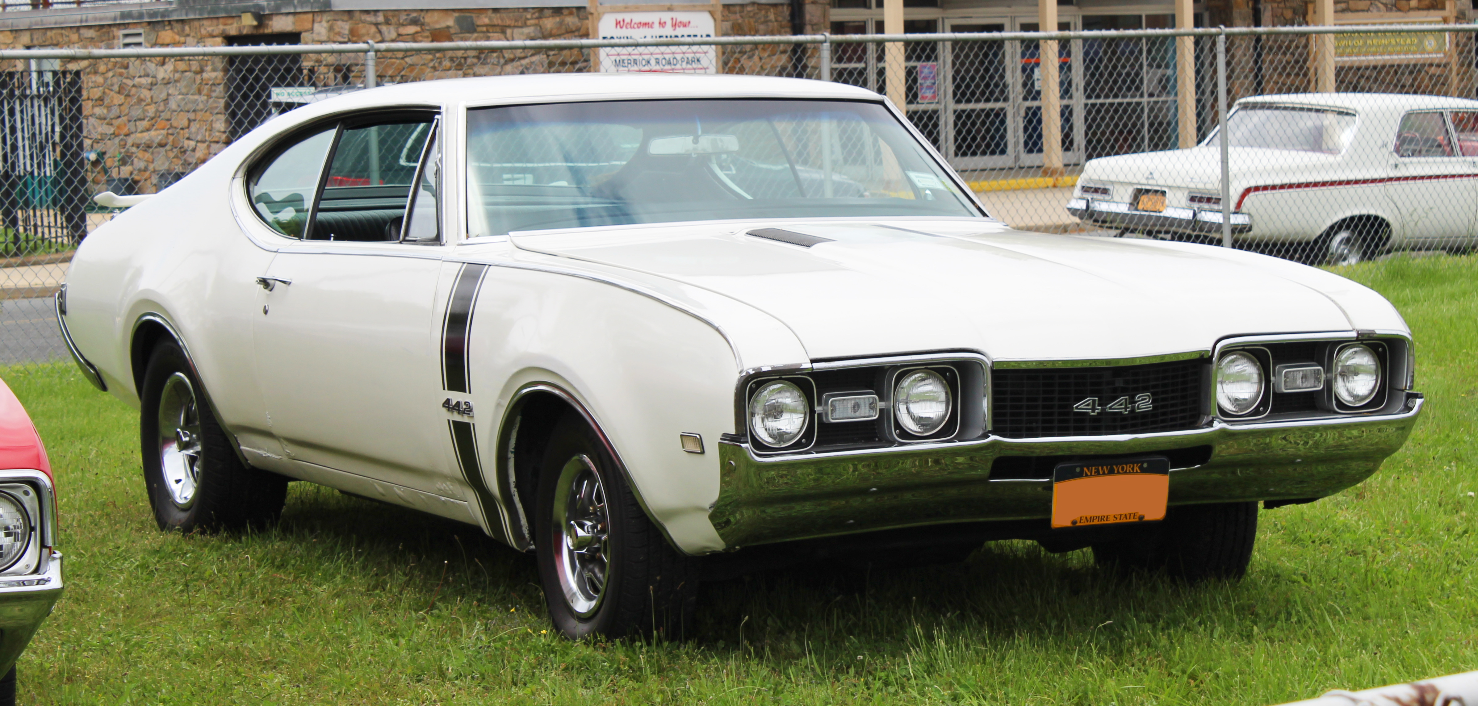 A 1968 Oldsmobile 442 photographed during at a classic car show, in Merrick, New York, USA